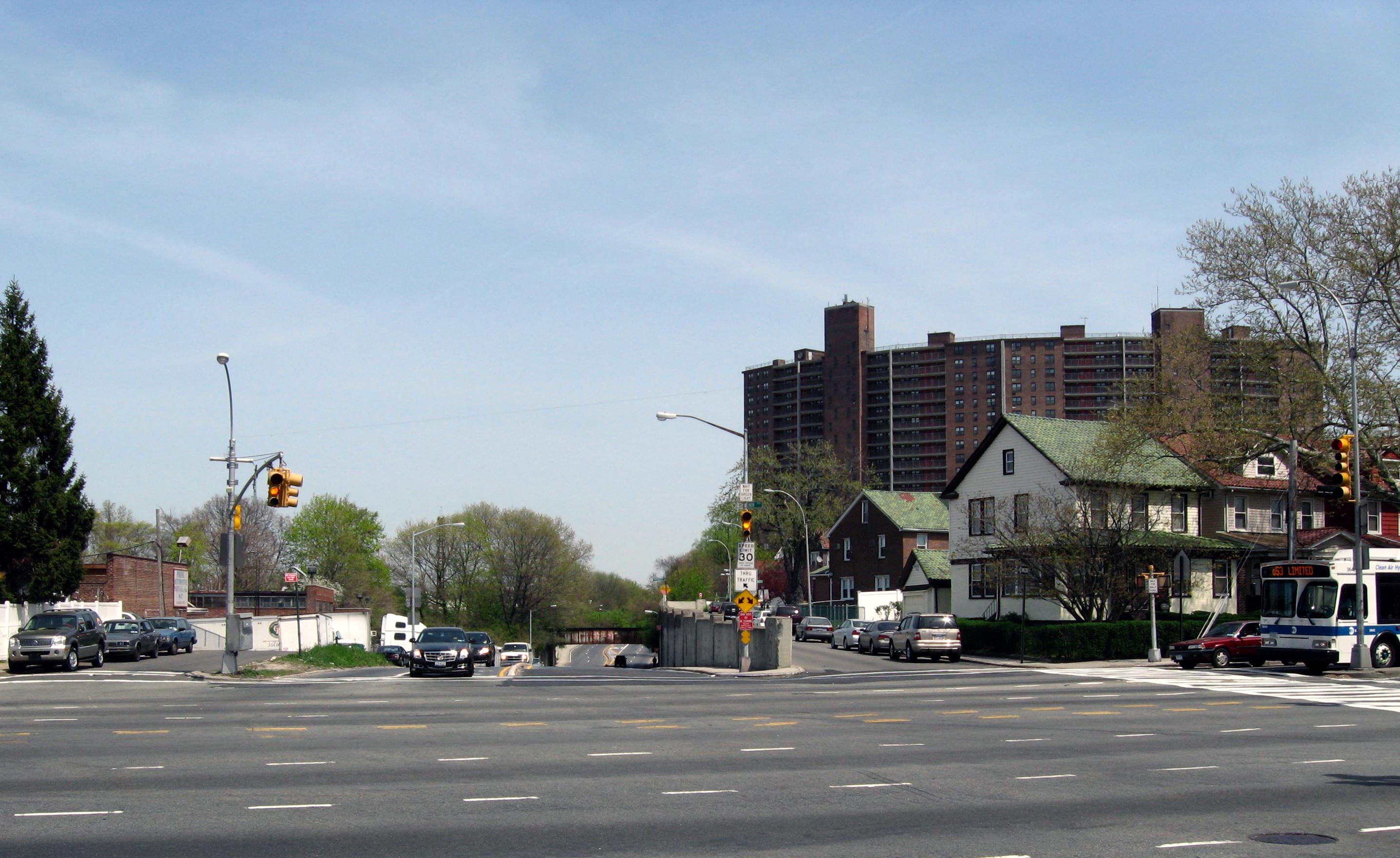 Looking east at Union_Turnpike_(New_York) crossing Woodhaven Boulevard and running under Rockaway Beach Branch on a sunny afternoon in springtime.